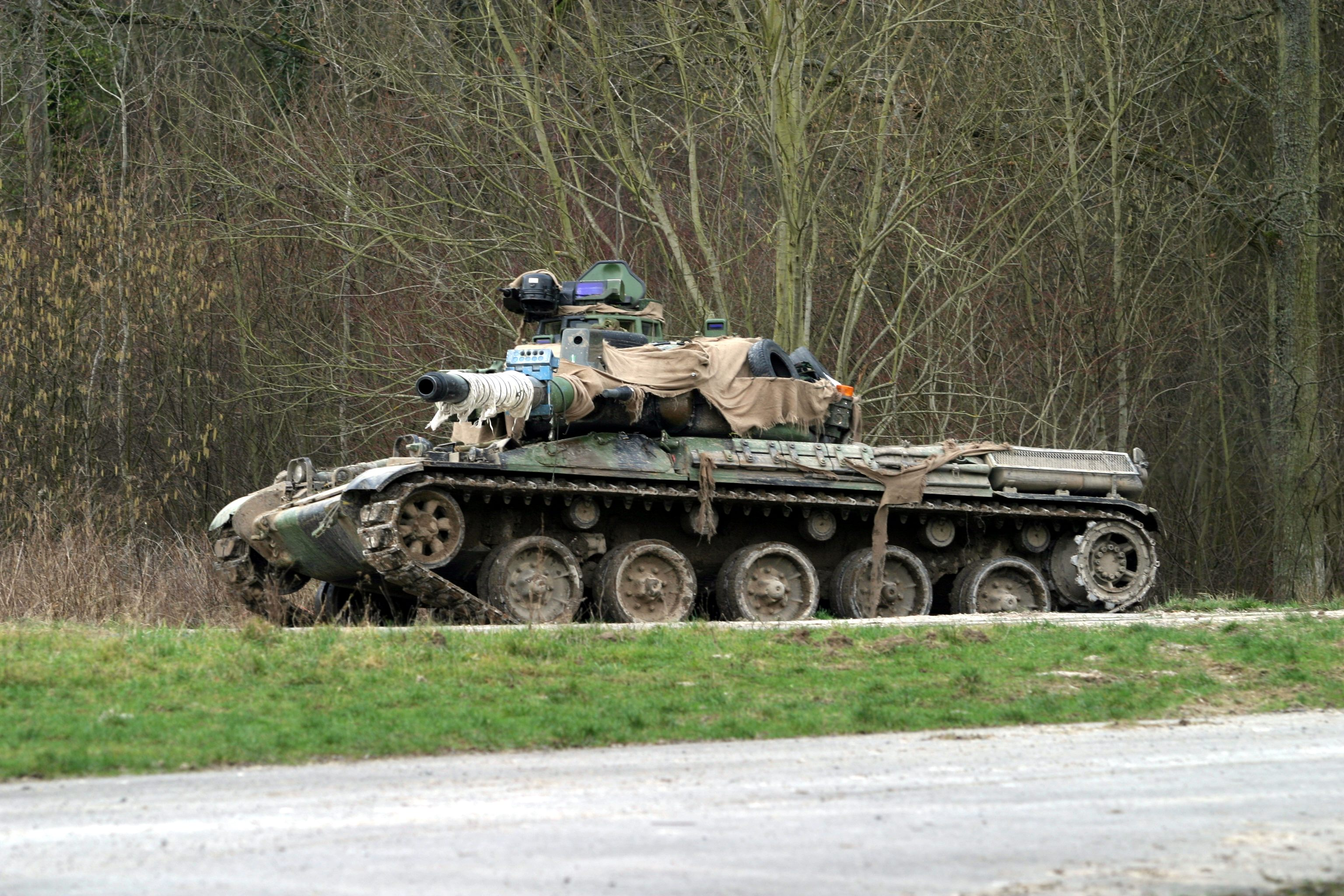 Photograph of a French AMX-30 b2 of the French Army